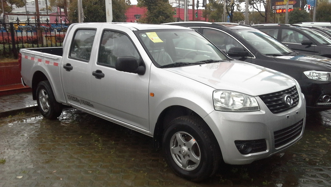 Great Wall Wingle 5 photographed in Shanghai, China.